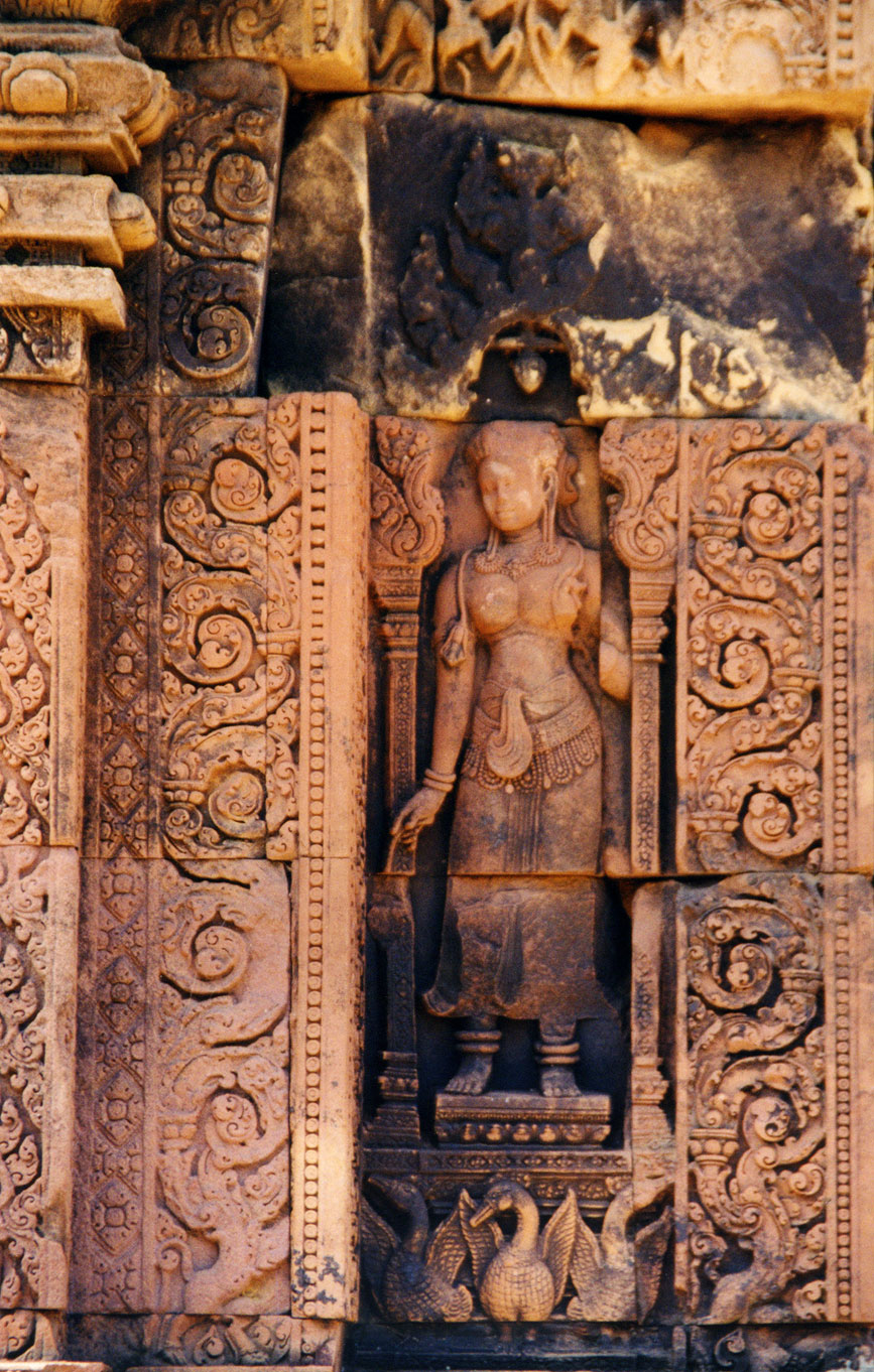 Depiction of a Devi at the Banteay Srei in Angkor (Cambodia)